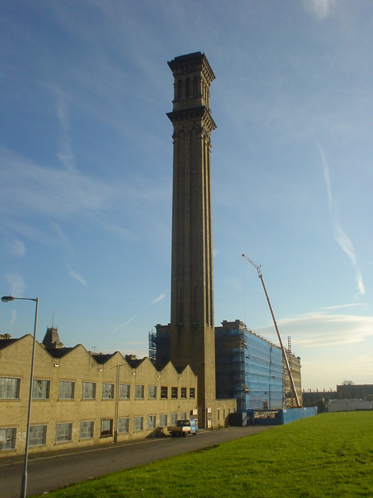 This photograph shows Lister's Mill in Bradford, West Yorkshire, UK, during redevelopment by Urban Splash property developers in 2004. This photograph was taken by David Houlbrooke (User:Shax), whilst studying at the University of Bradford. Category:Grade II* listed buildings